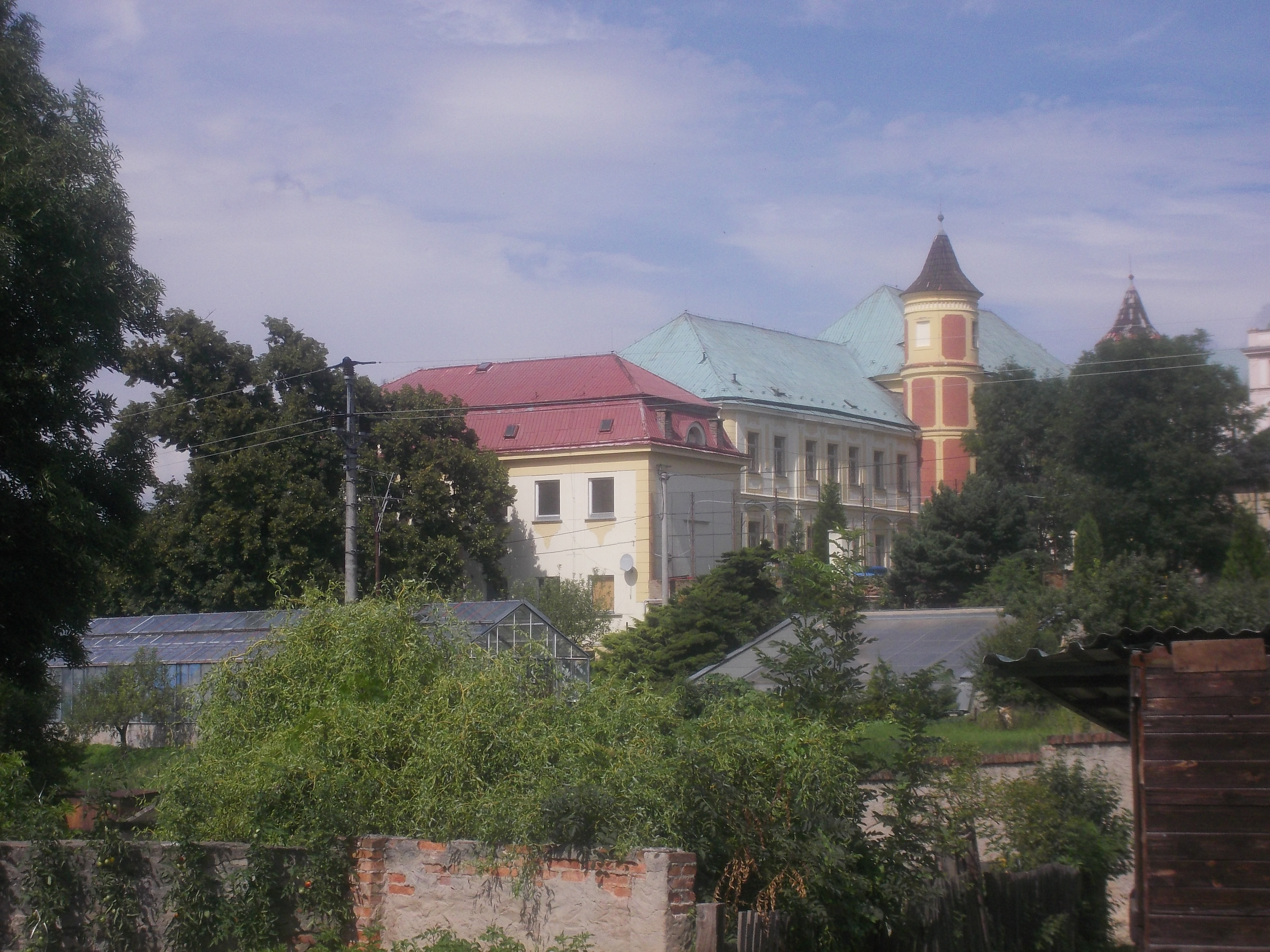 Chateau Kostomlaty pod Milešovkou